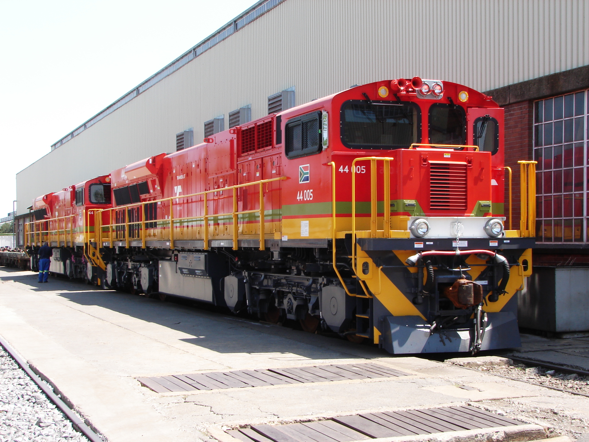 South African Class 44-000 no. 44-005Type: GE ES40ACiBuilder's no.: 63329/2015-07Location: Koedoespoort. Pretoria, Gauteng